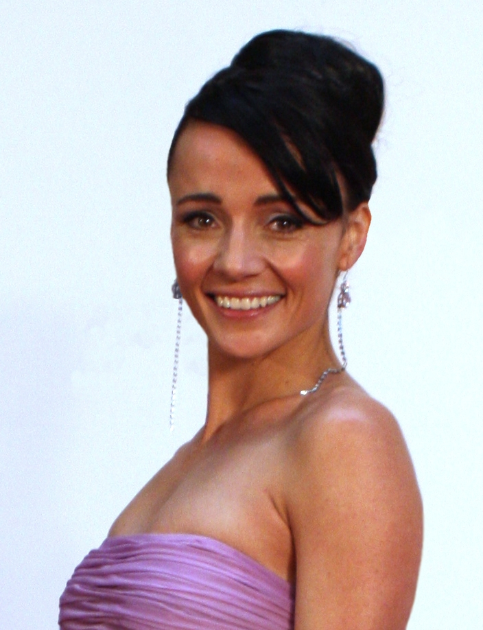 Freya Stafford at the 2011 Logie Awards.